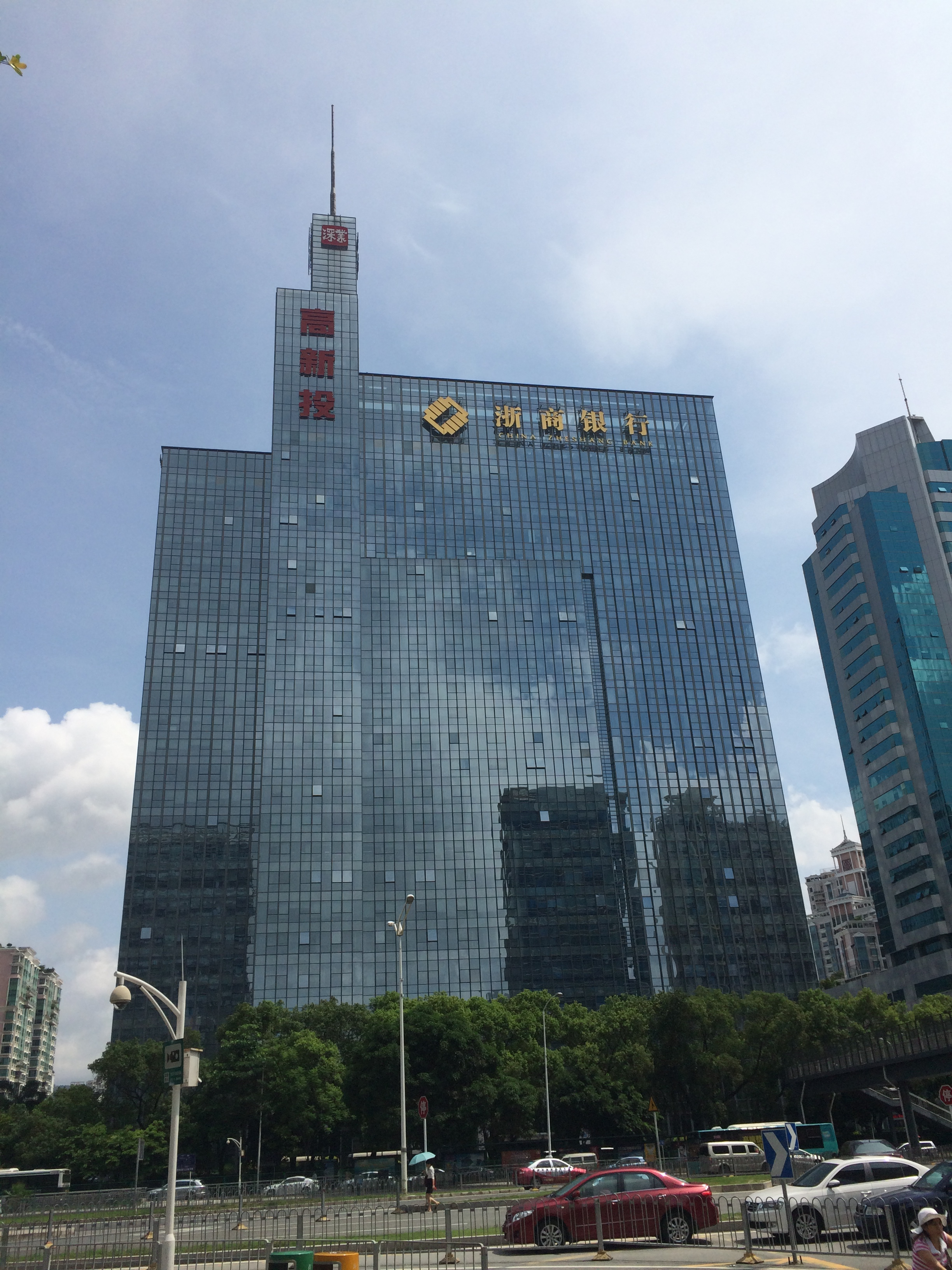 View from Chegongmiao Subway Station (车公庙地铁站). 浙商银行股份有限公司（s：浙商银行） CHINA ZHESHANG BANK CO.,LTD.（s：“CZB”） 浙商银行深圳分行营业部（深圳福田时代科技大厦16-17层） Shennan Avenue No.7028 Time Technology Mansion 16-17 Floors, Futian District, Shenzhen City, Guangdong Province, People's Republic of China.